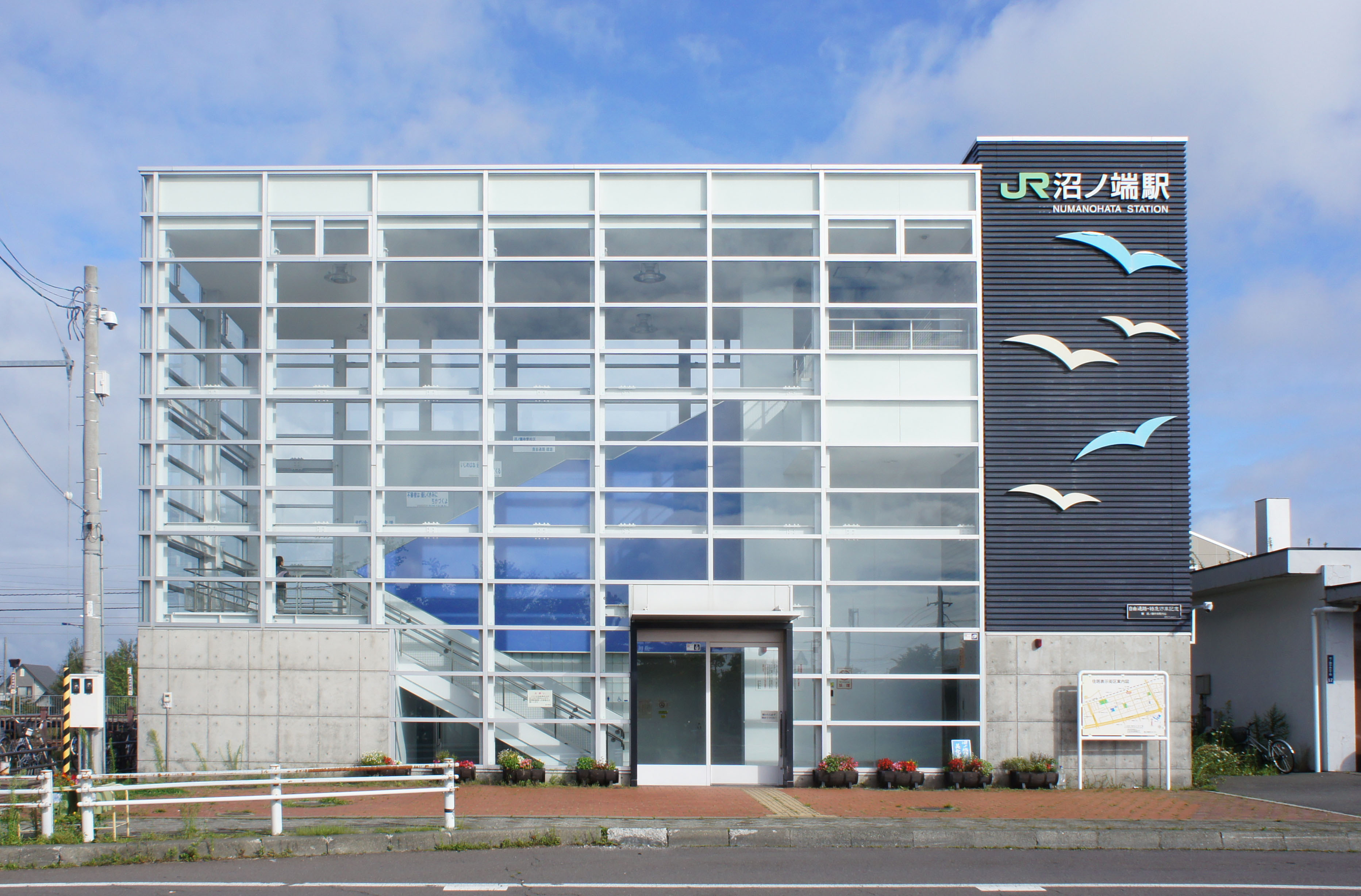 Free passage of JR Muroran-Main-Line/Chitose-Line Numanohata Station